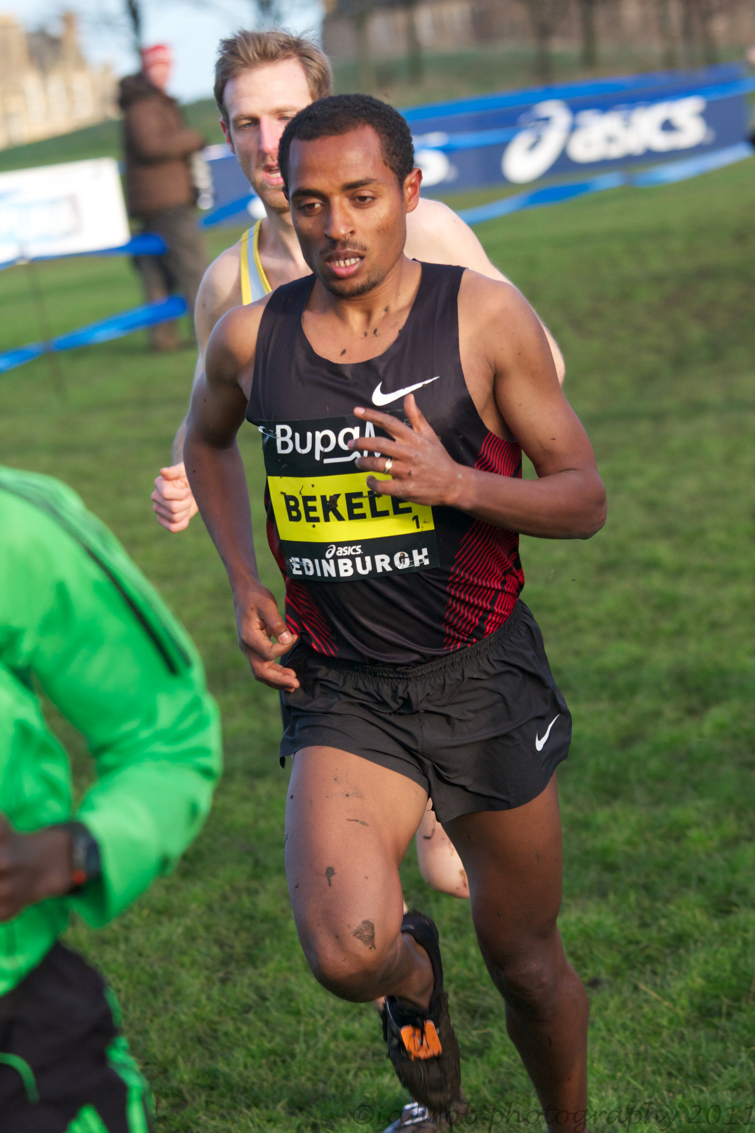 Ethiopian athlete Kenenisa Bekele competing in the Men's 3 km race.